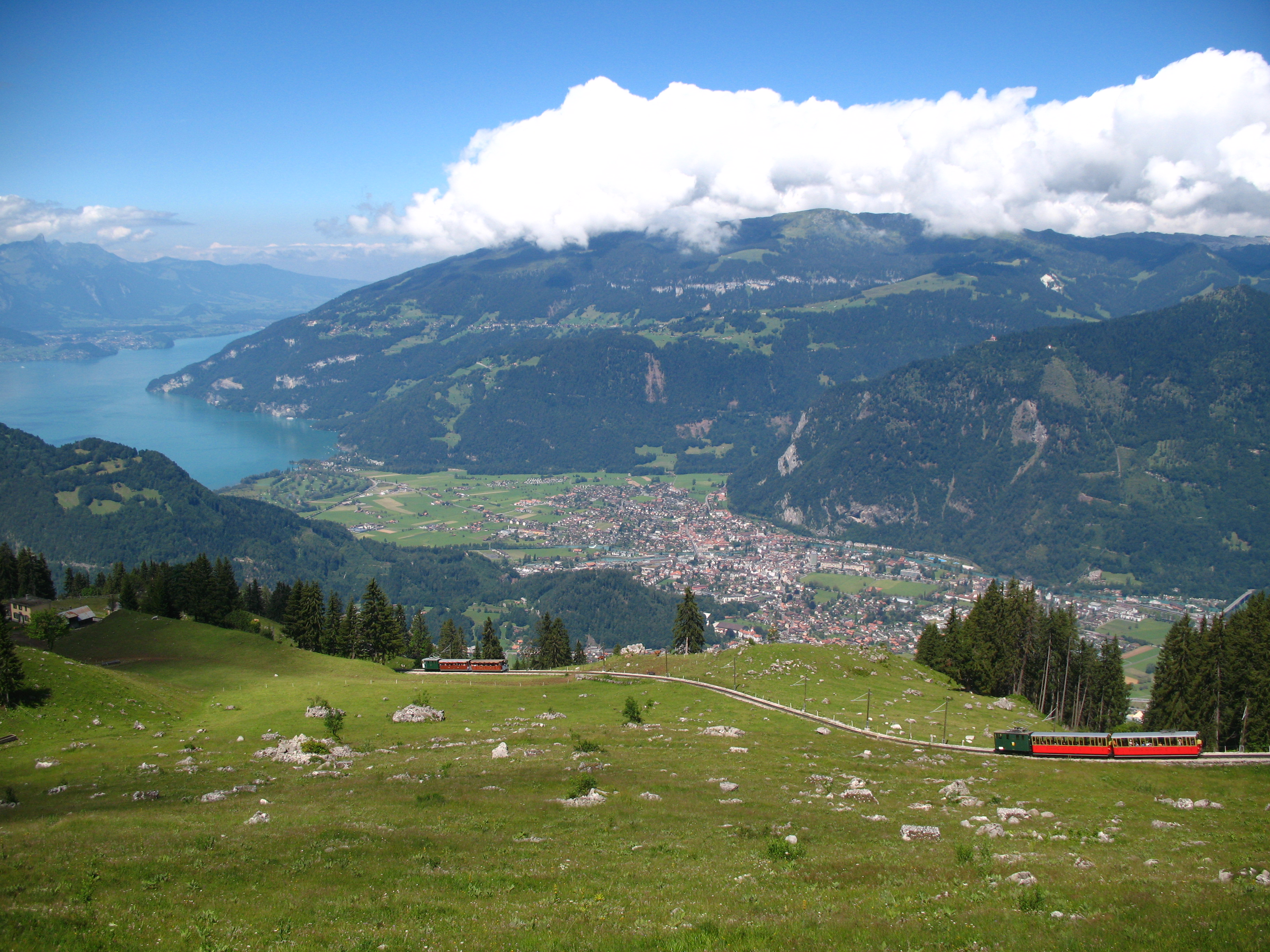 Interlaken, Abendberg, and Lake Thun viewed from the Schynige Platte Railway, Switzerland